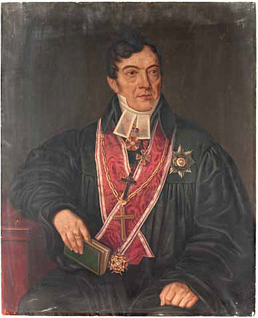 Johann Friedrich August Volborth (1768-1840)